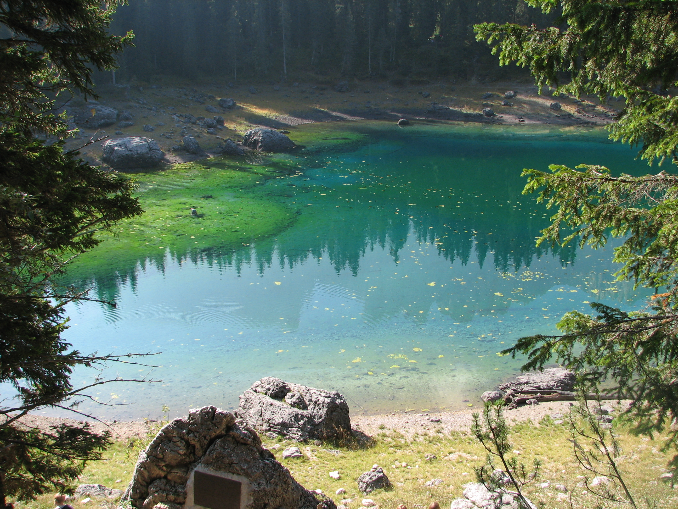 Karersee, South Tyrol